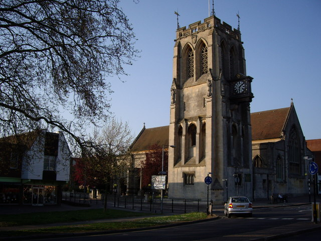 St Johns Church St Johns Church on the corner of the High St. and St. Johns Rd.